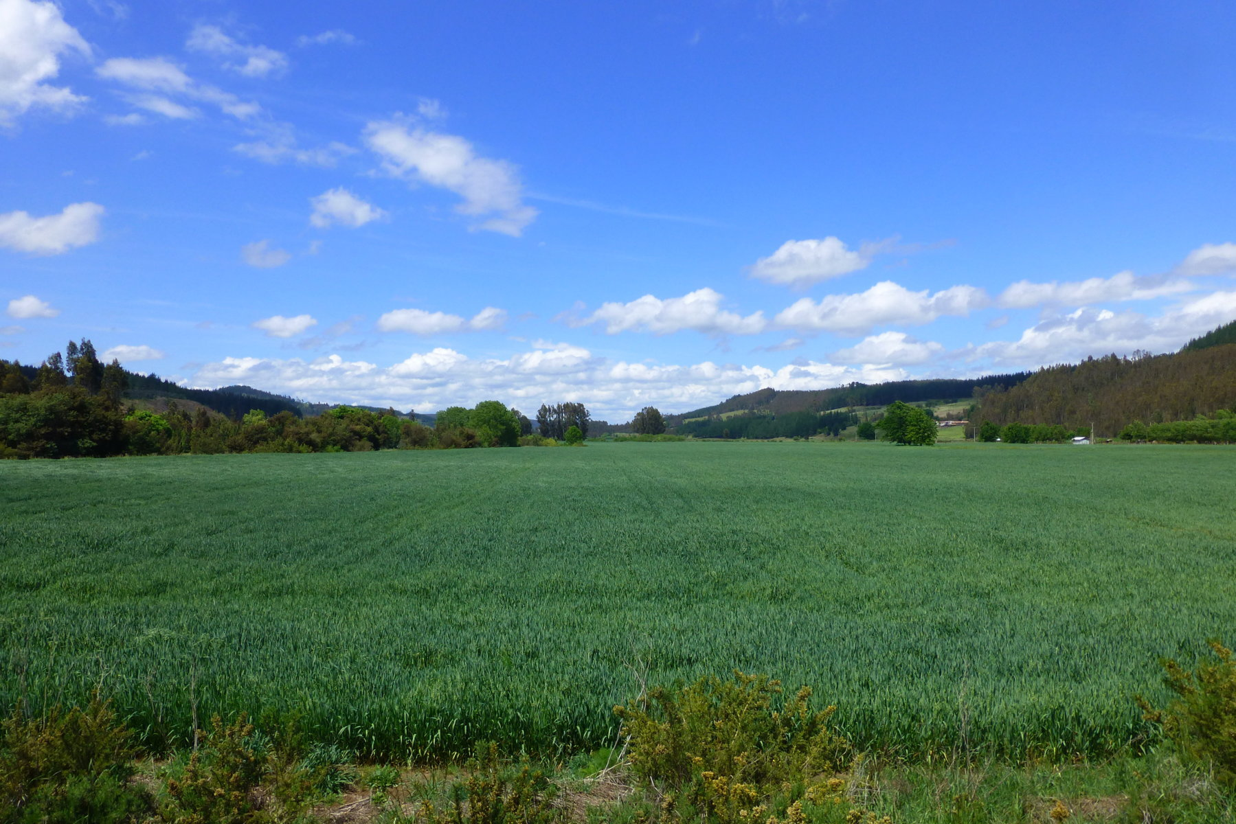 Mirando hacia el sur, desde estadio de Galvarino.